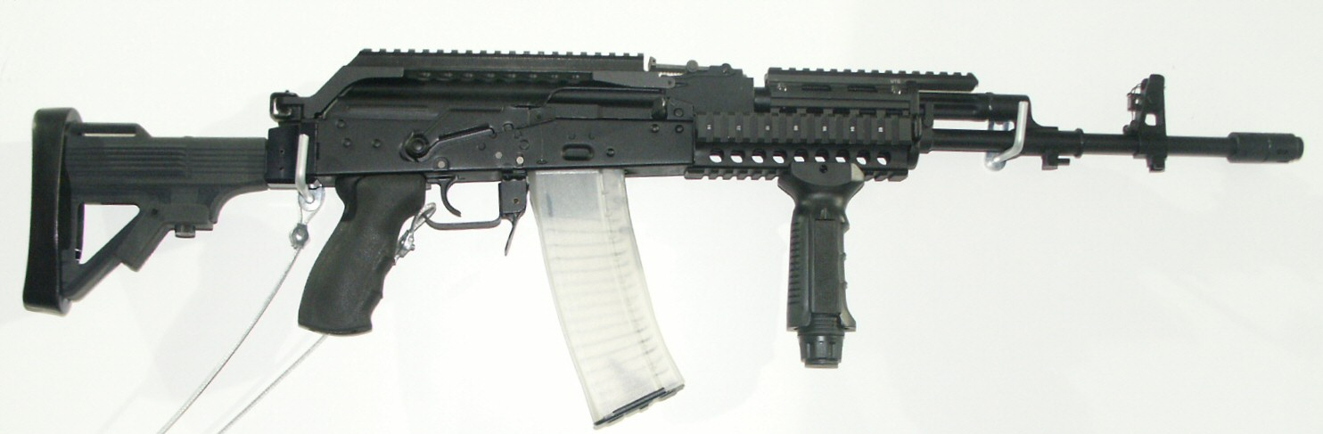 Polish 5.56x45mm NATO rifle wz.2004 Beryl (development of wz.96 rifle) with Picatinny rail